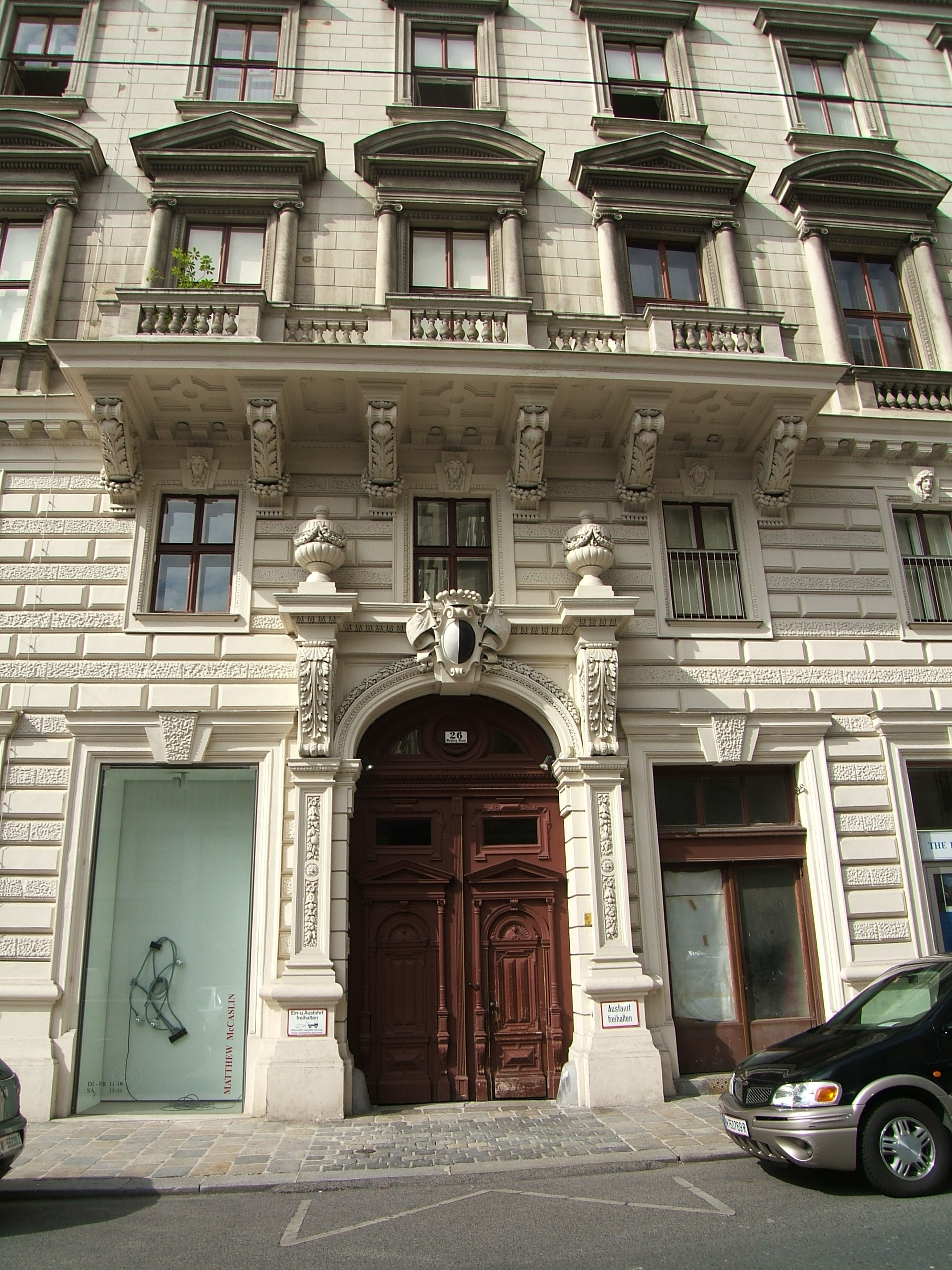 Main portal of palais Abensperg-Traun, Vienna 1. Weihburggasse 26